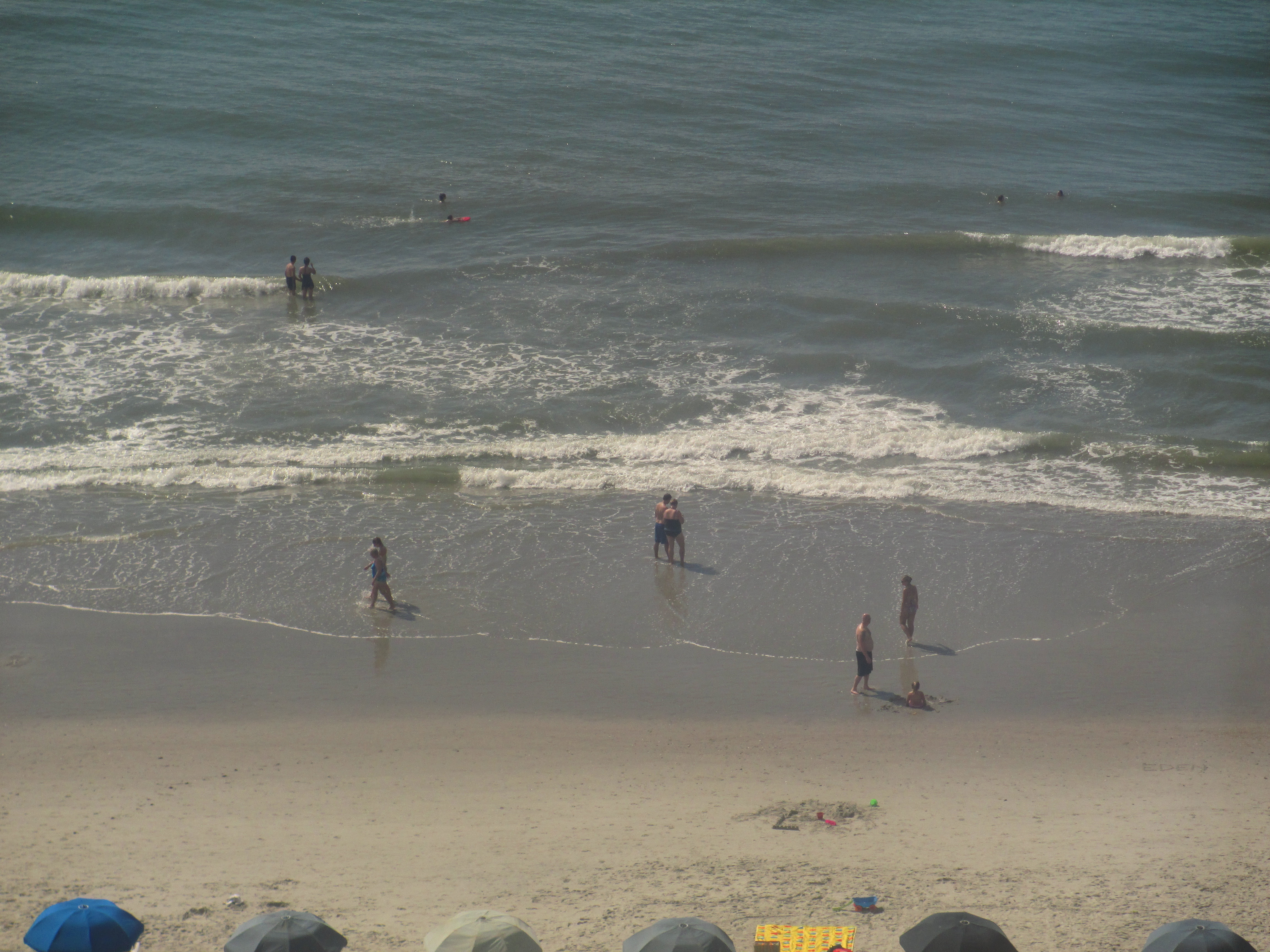 I took photo with Canon camera in Myrtle Beach, SC.